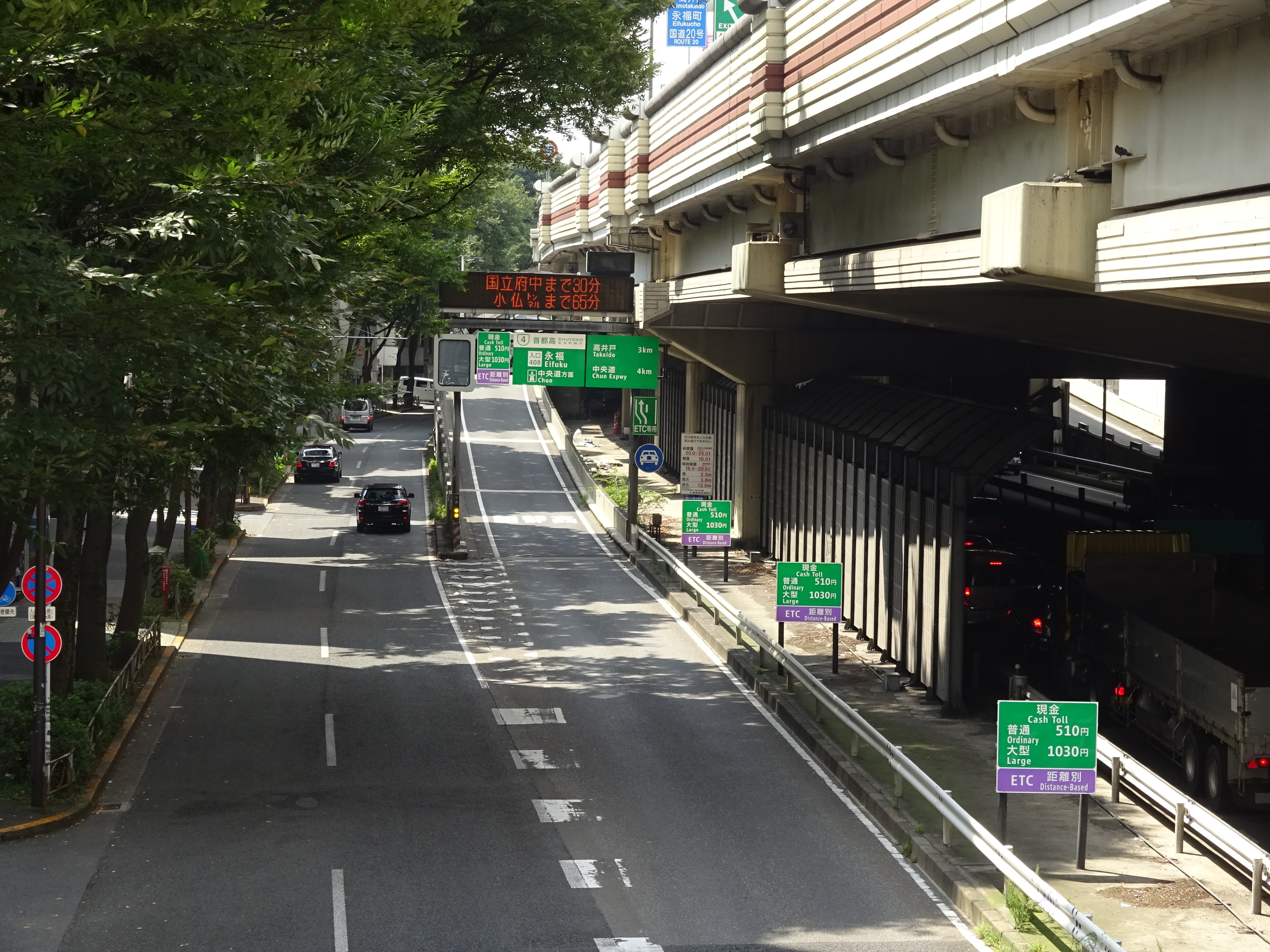 Eifuku IC (Shuto Expressway Route 4)